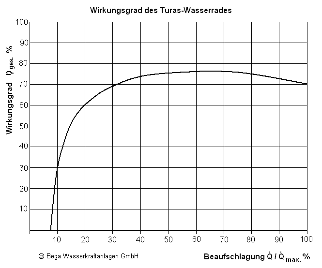 effectiveness of a water wheel